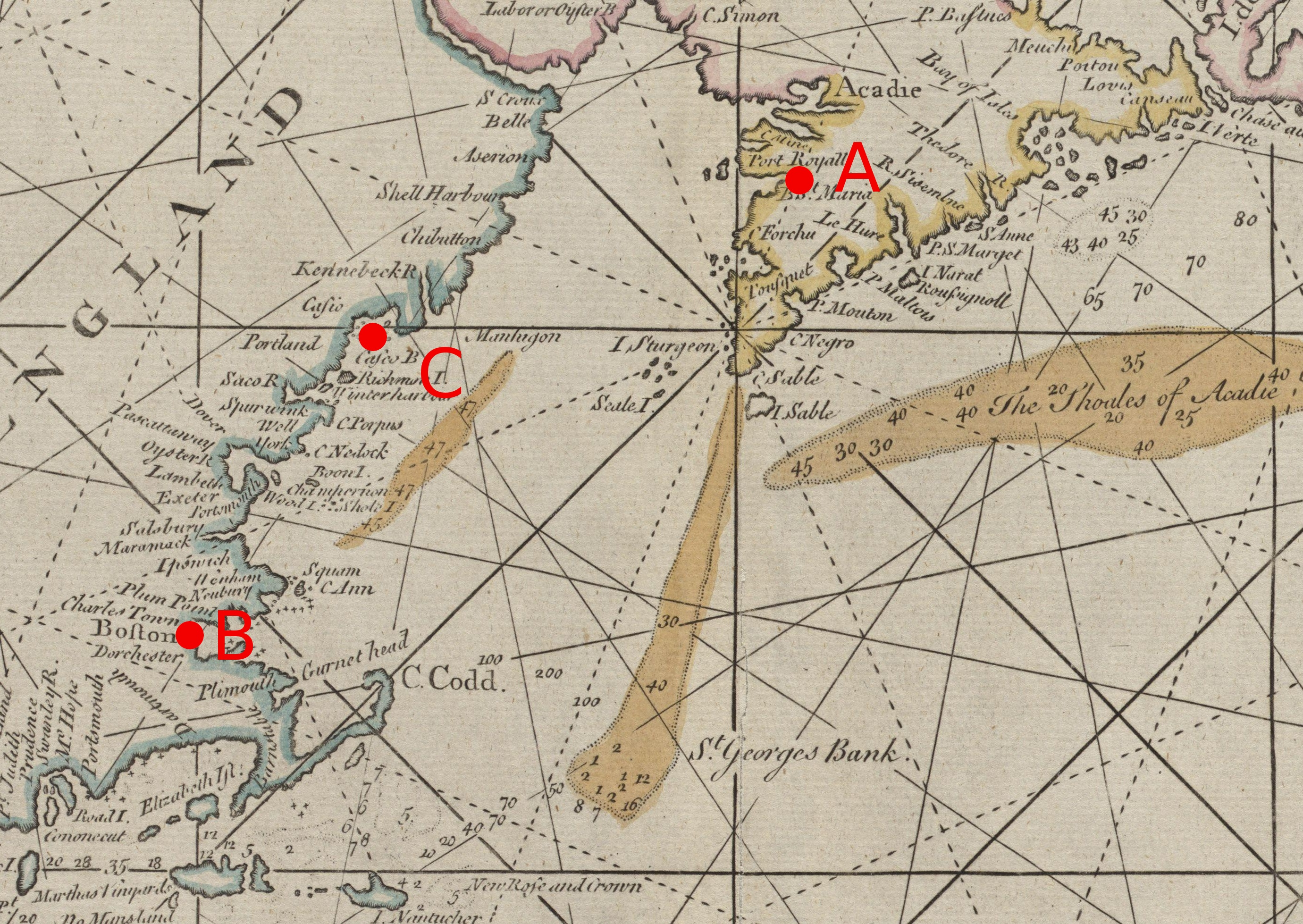 Detail from a 1713 map showing the Gulf of Maine and the Bay of Fundy, an area that saw conflict in the War of the Spanish Succession. Map is annotated as follows: A: Port Royal, Acadia B: Boston, Province of Massachusetts Bay C: Casco Bay